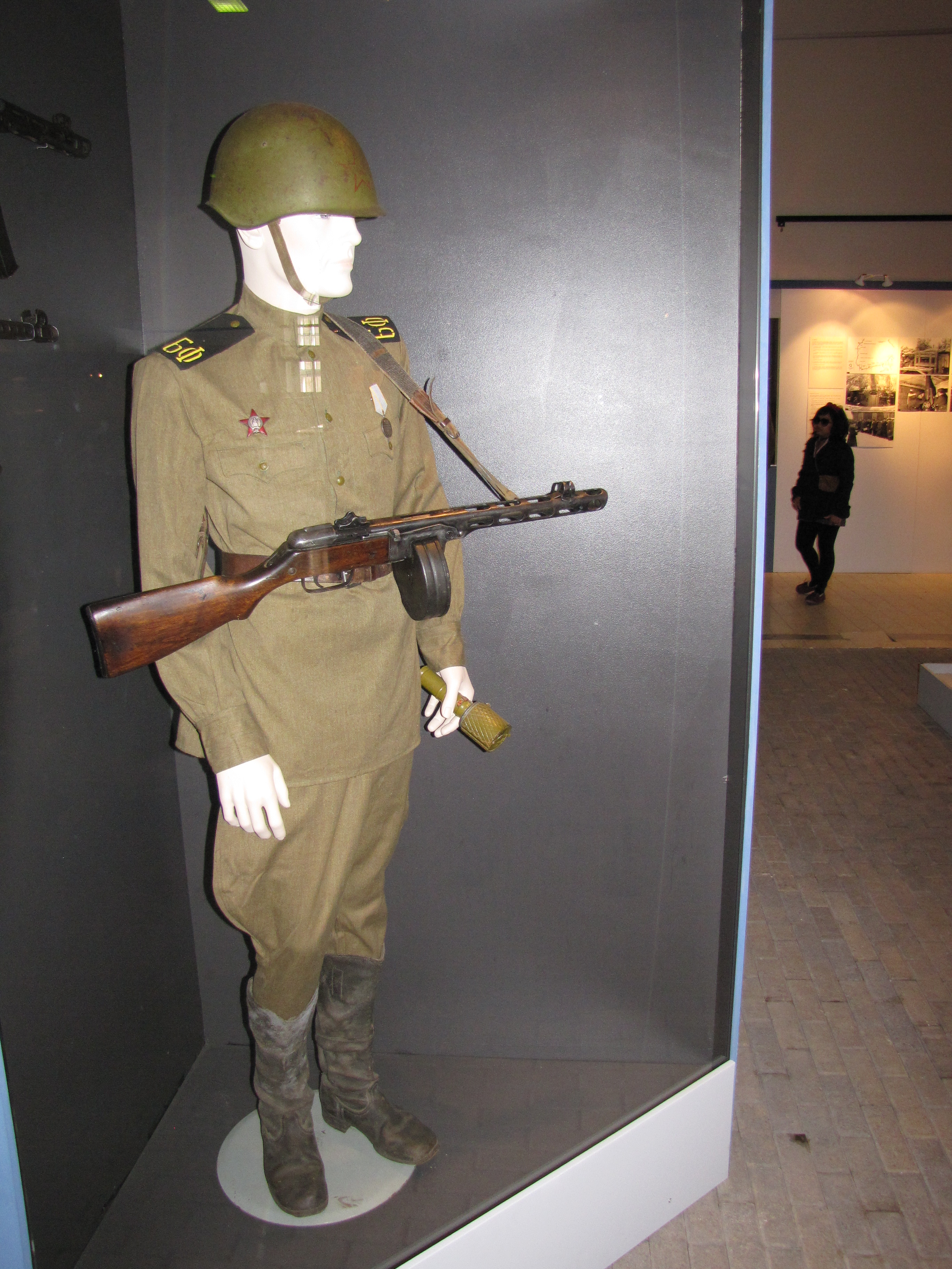 Mannequin in Soviet naval infantry gymnastyorka m/43 and steel helmet m/40. PPSh-41 submachinegun and RGD-33 hand grenade.